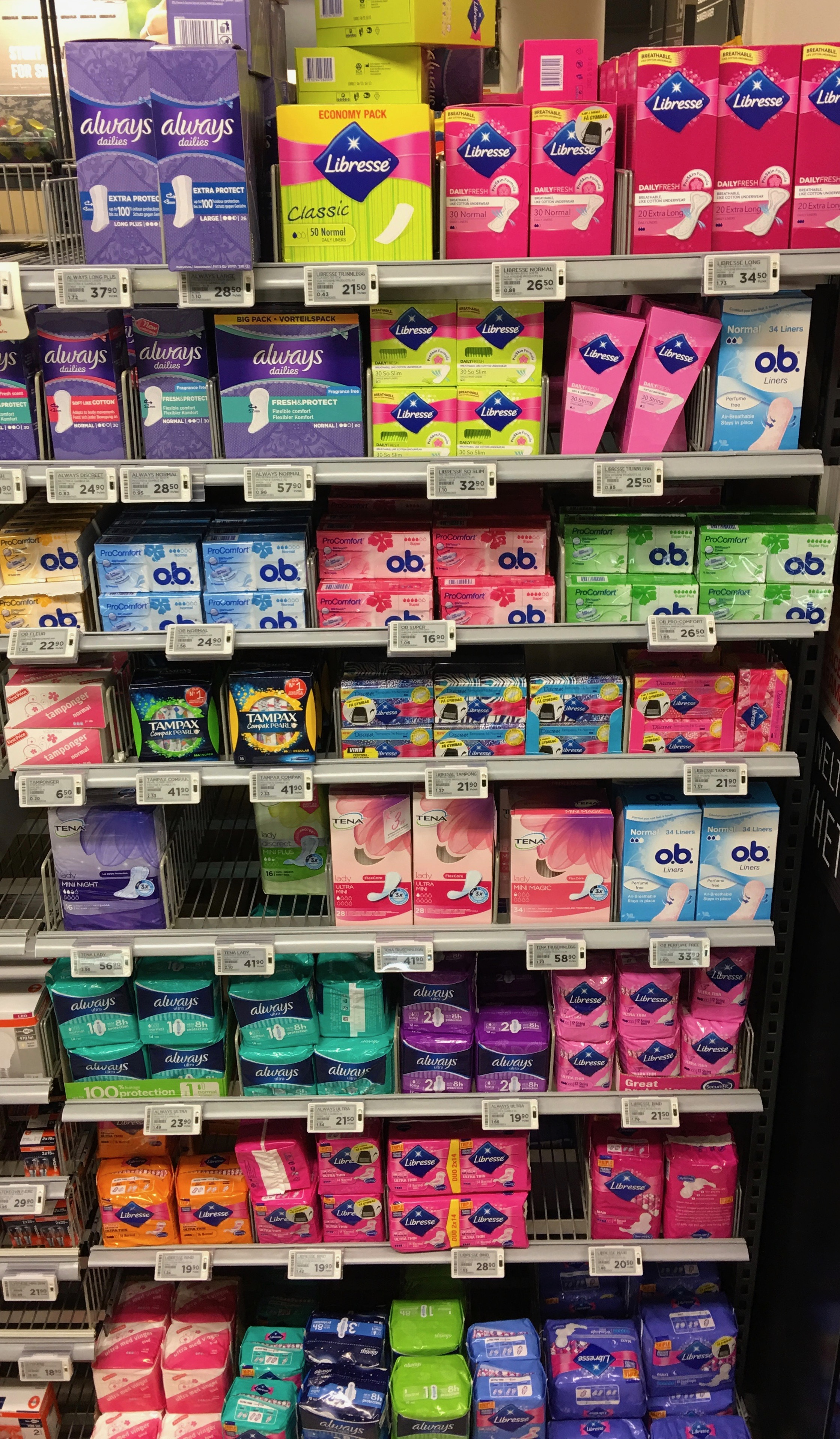 Tampons and women's sanitary products in shop shelves/aisle in Meny Supermarket at Bergen Stormarked Shopping Mall in Bergen, Norway.